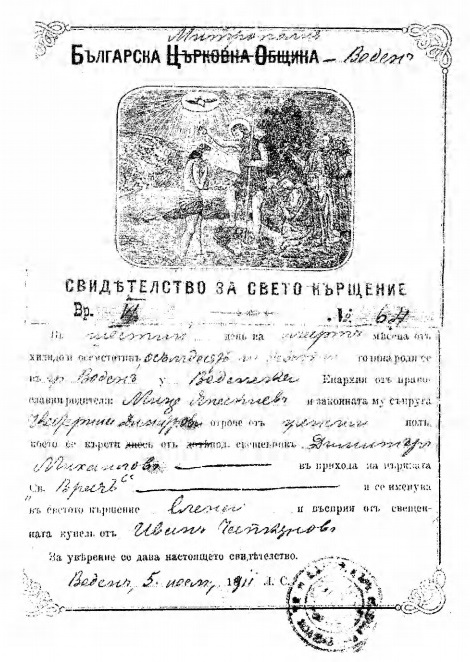 Elena Hadzhigrigorova's Birth Certificate from Voden Metropoly 1911